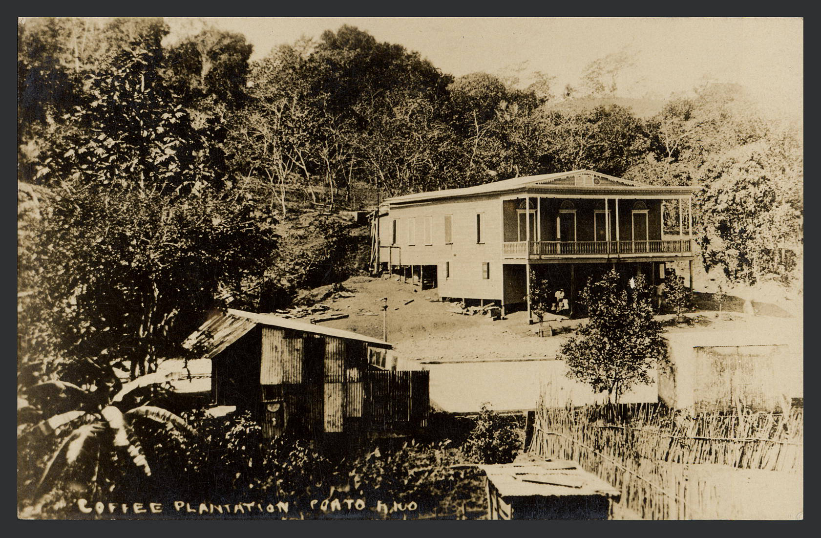 An unspecified coffee plantation in Puerto Rico, in the beginning of the 20th century, from a postal card. Formato Original: 1 tarjeta postal: byn; 8.6x14 cm. de la Colección de Tarjetas Postales, disponible en la Colección Puertorriqueña del Sistema de Bibliotecas de la Universidad de Puerto Rico, Recinto de Rio Piedras.